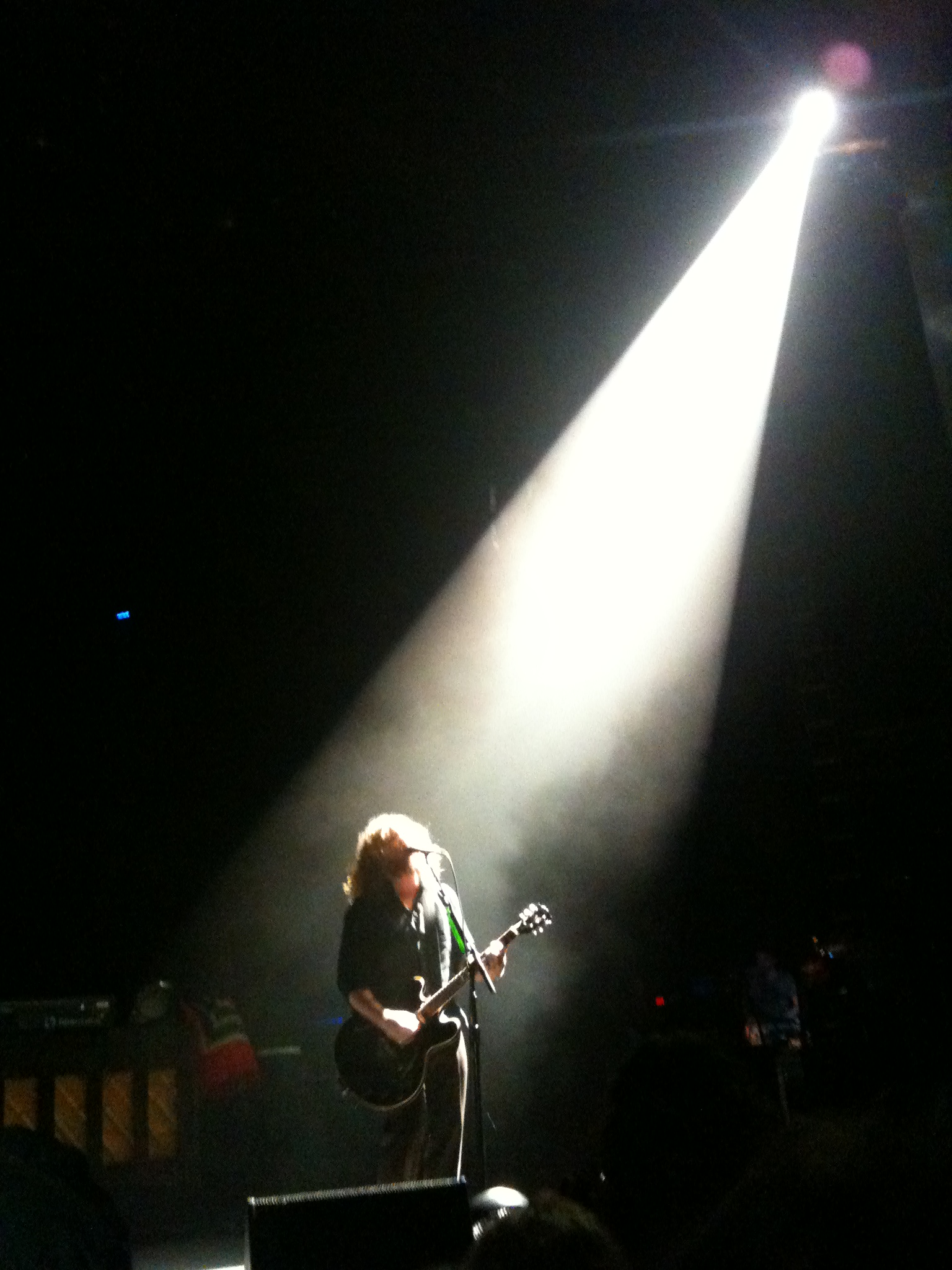 Jim James performing with My Morning Jacket at Merriweather Post Pavilion on August 12, 2011.